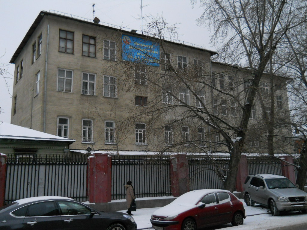 Moscow, Bolshaya Dekabrskaya Street, 5, Raspletin Radiotechnological college.